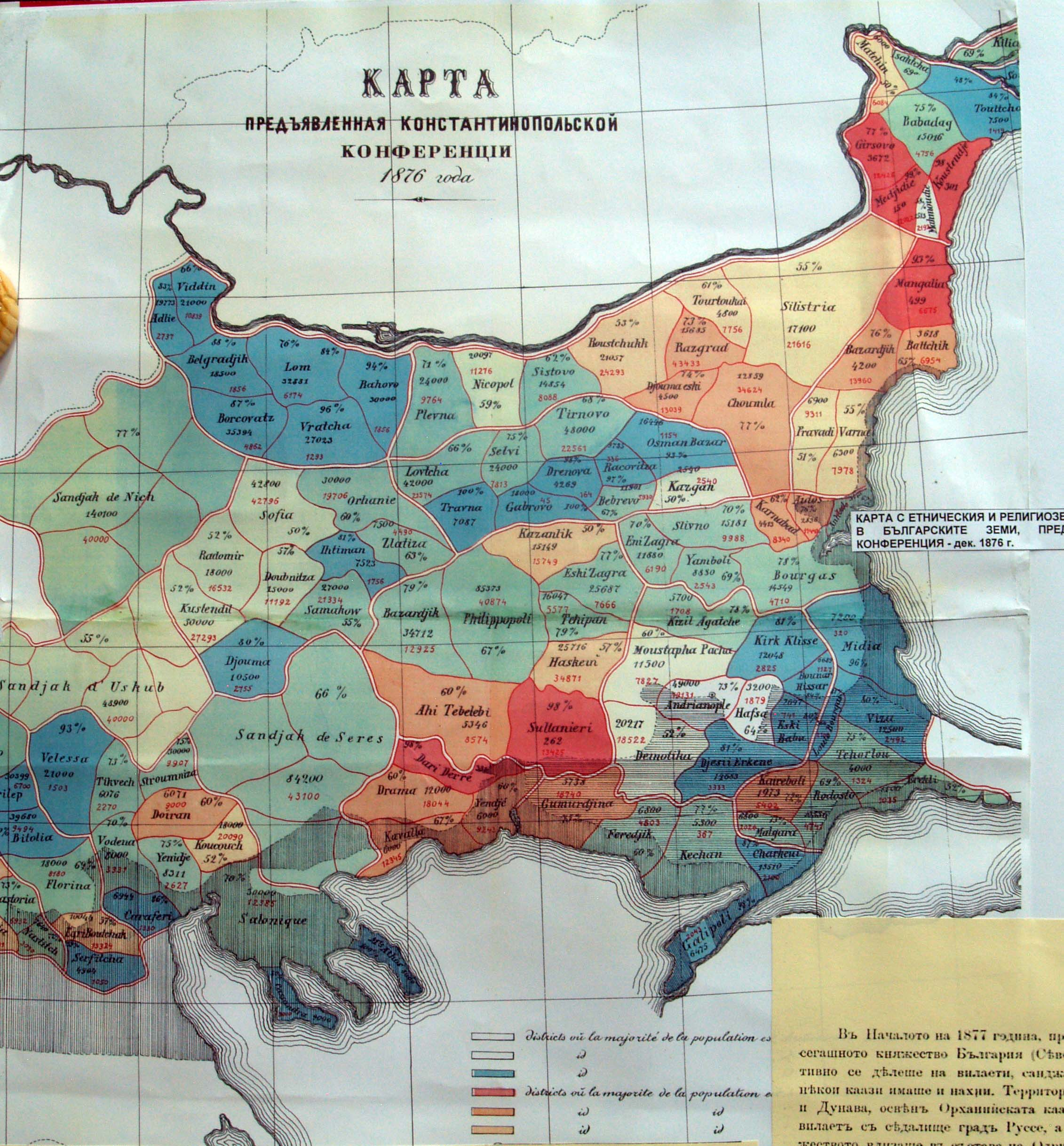 Map of Christian and Muslim population in each kaza presented at the Constantinople Conference in 1876